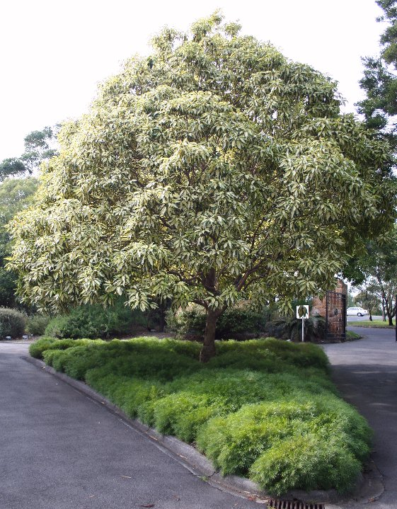 Brush Box (Lophostemon confertus), Variegated form with Acacia cognata groundcover, Maranoa Gardens June 2006 photo, Cas Liber